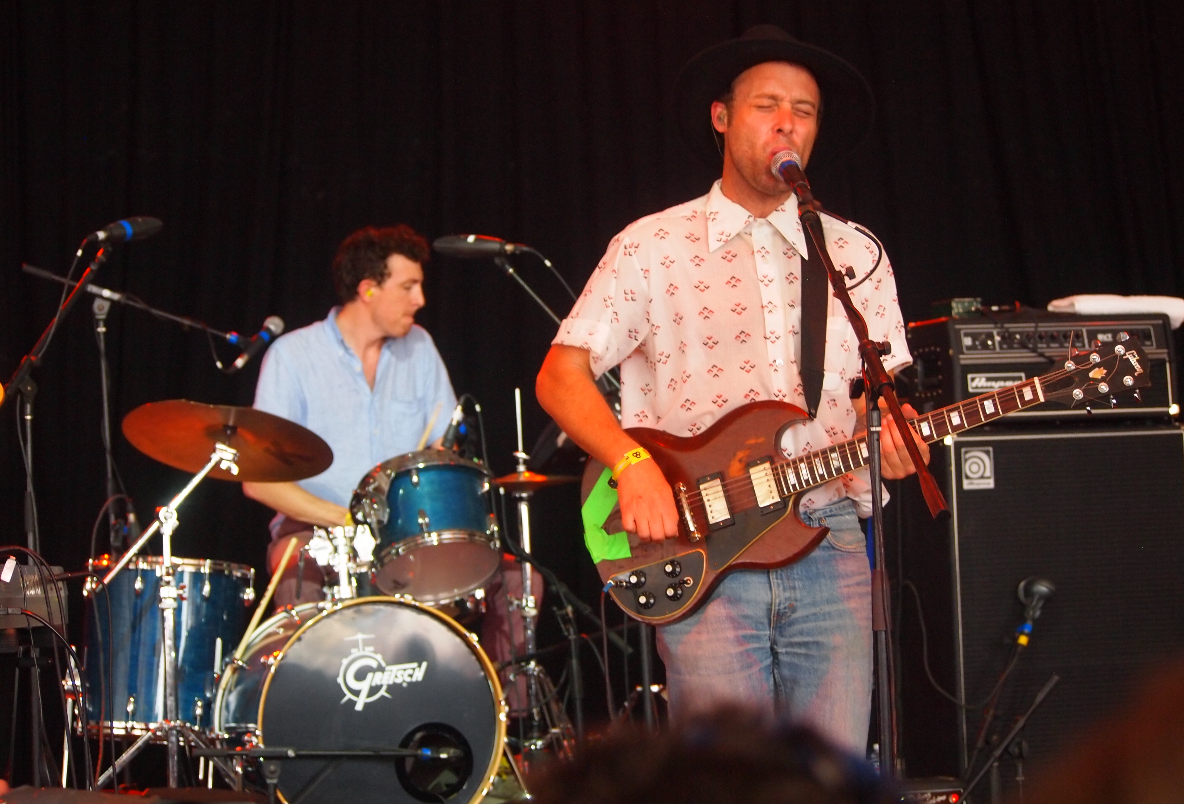 Luke Temple, Peter Hale performed Sunday at That Tent at Bonnaroo 2012.